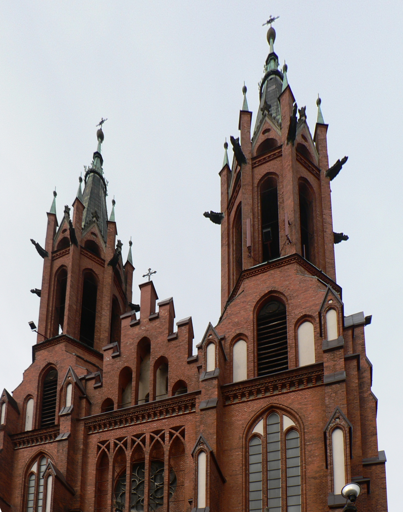 Cathedral in Białystok. Towers